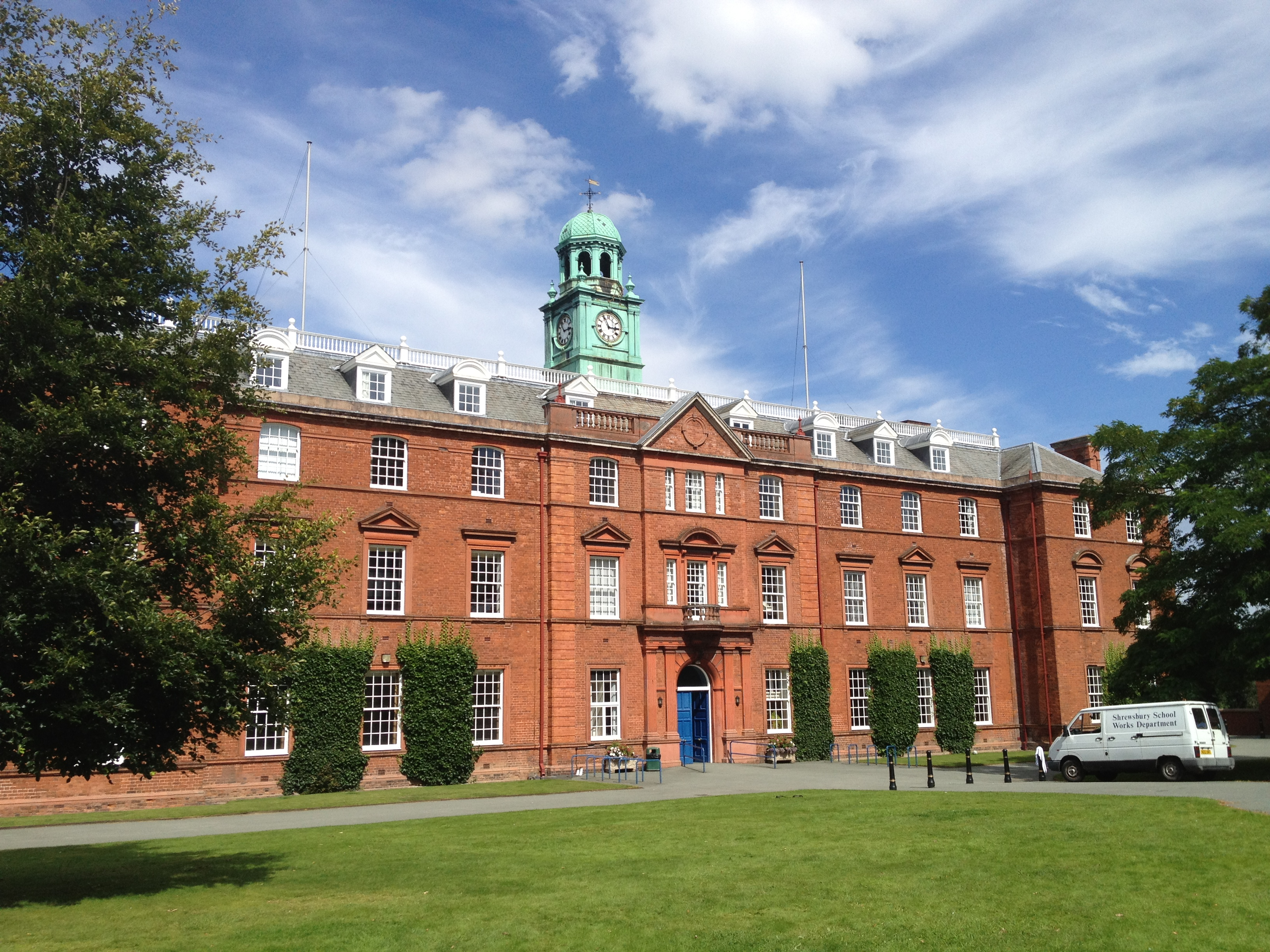 The main building - Shrewsbury School, Shrewsbury